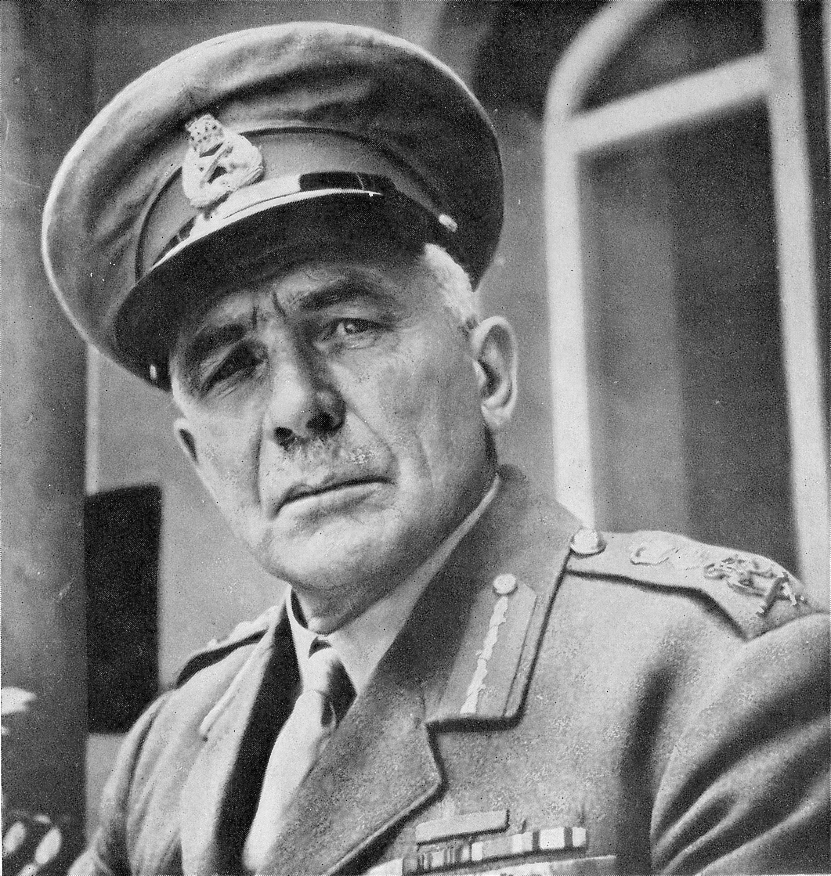 Field Marshal Lord Ironside